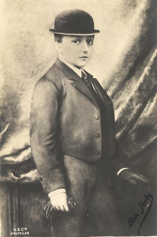 AK S. A. R. le Prince Leopold, Duc de Brabant, Comte de Hainaut